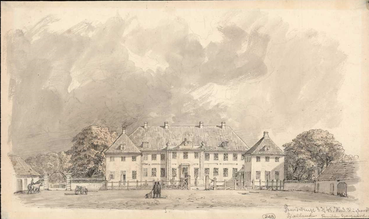 Svenstrup Manor in Denmark